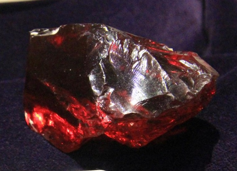 Philosopher's stone.